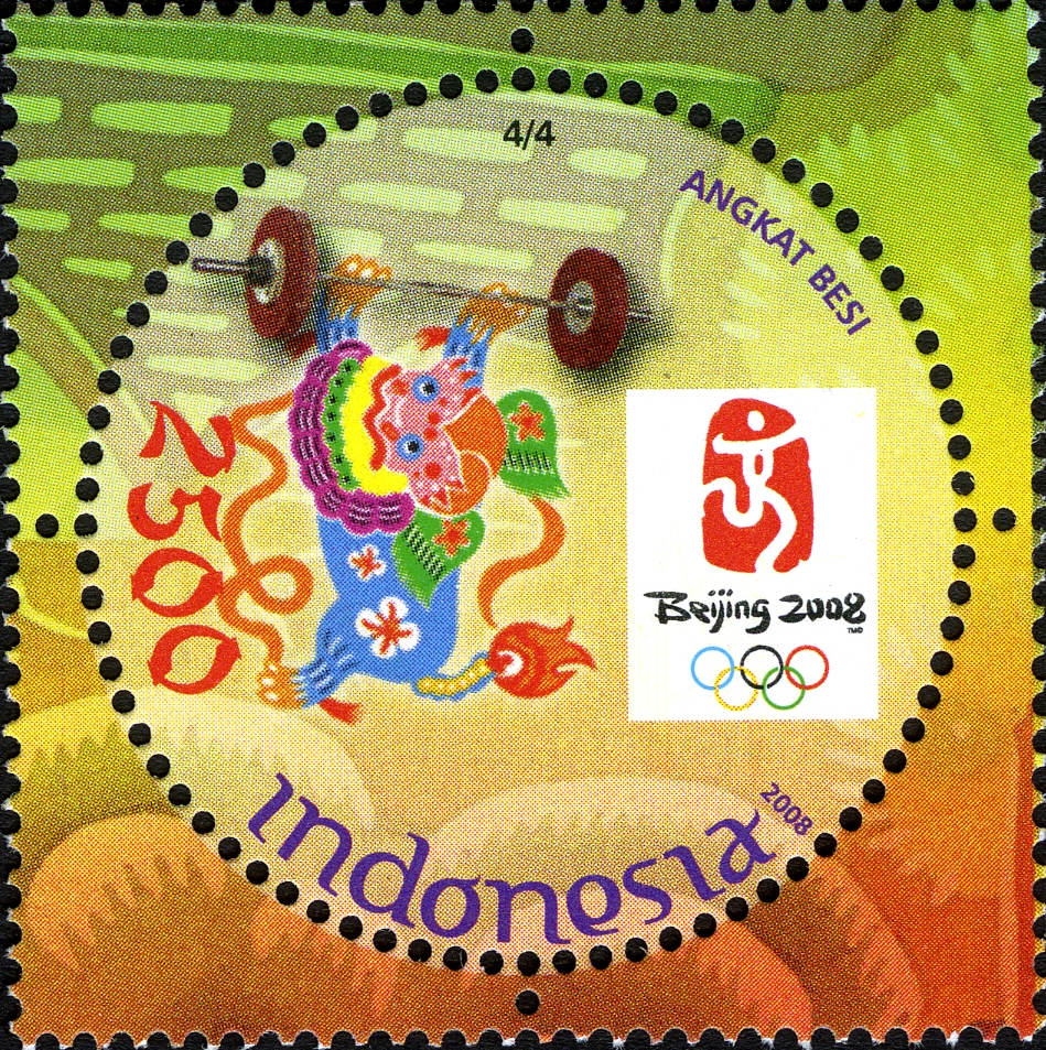 Stamps of Indonesia